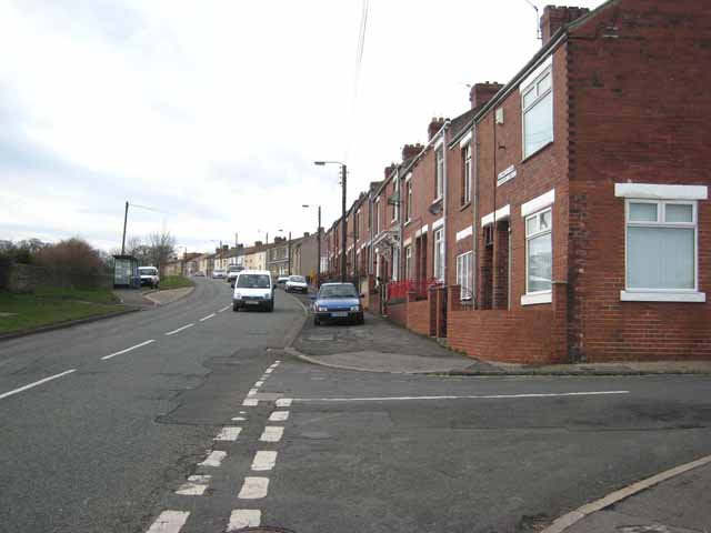 Helmington Row On the A690, part way between Willington and Crook.